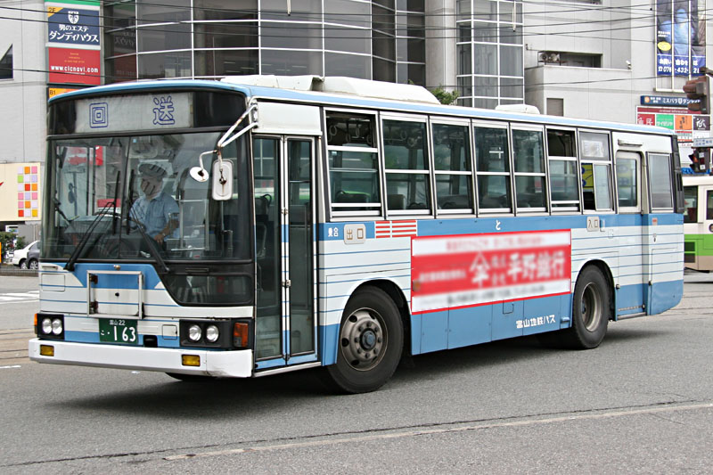 Toyama Chiho railway's route bus (Mitsubishi Fuso Aero Star / Shin-Kureha body) in front of Toyama Station South Exit, Toyama, Toyama, Japan